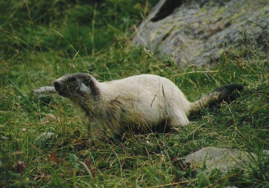 A french marmotte. I took this photography in July 2006, in Ubaye Valley.